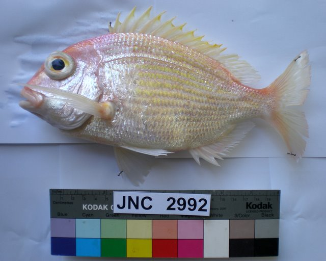 Dentex fourmanoiri. Locality: off Nouméa, New Caledonia, deep-sea off the barrier reef, depth ca. 200 m. Fork Length 242 mm. date 2009-07-02. This specimen was identified by Bernard Séret. This photograph is also deposited in FishBase.